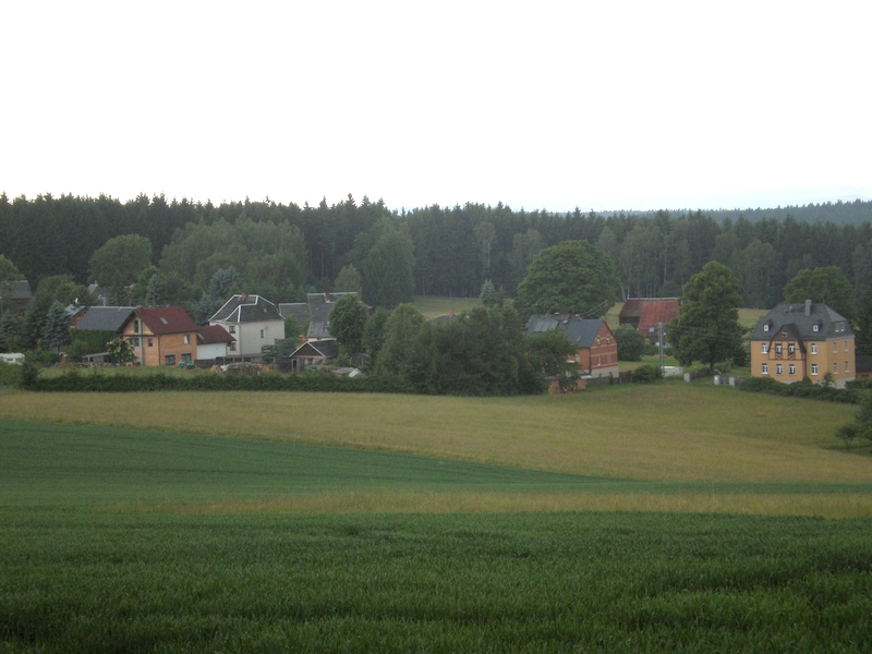 Wernitzgrün (Erlbach), Saxony, Germany